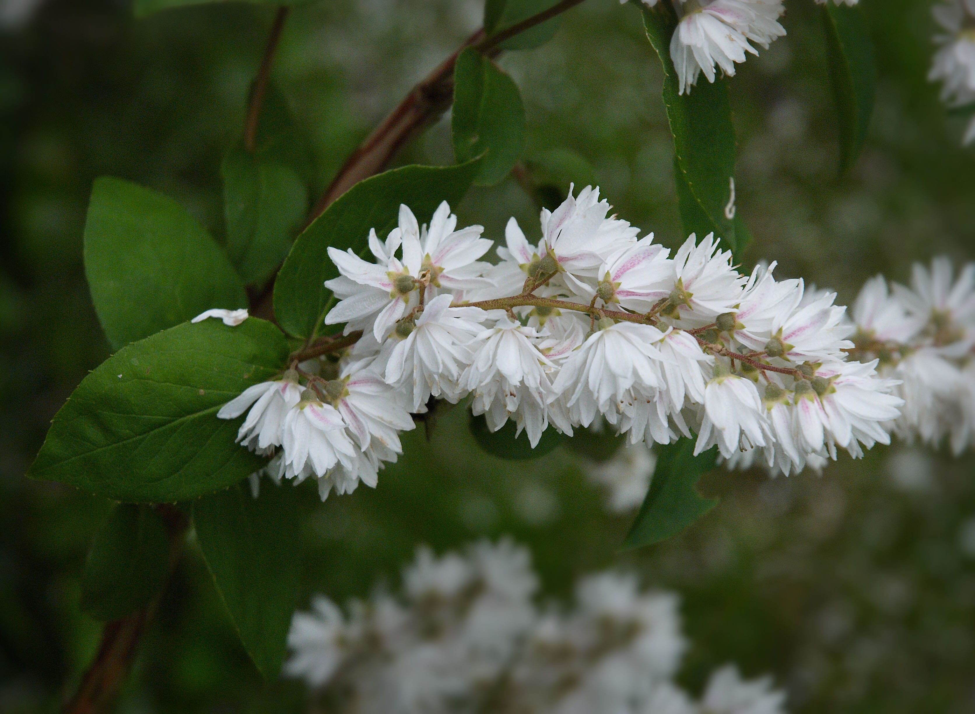 Deutzia scabra Other photos of the same bush of about 3 m high